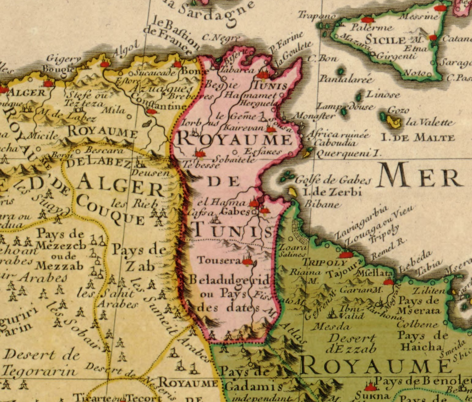 Map of the Ottoman Beylik of Tunis